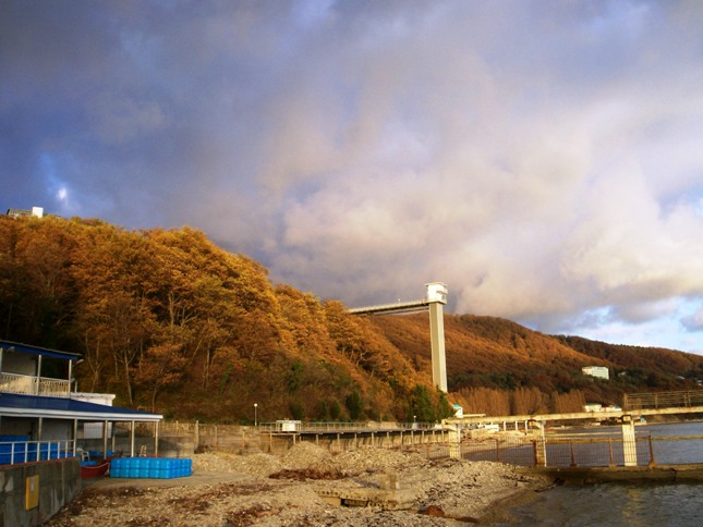 Black Sea coast in November. Near village Tyumensky, Tuapse district, Krasnodar Krai.